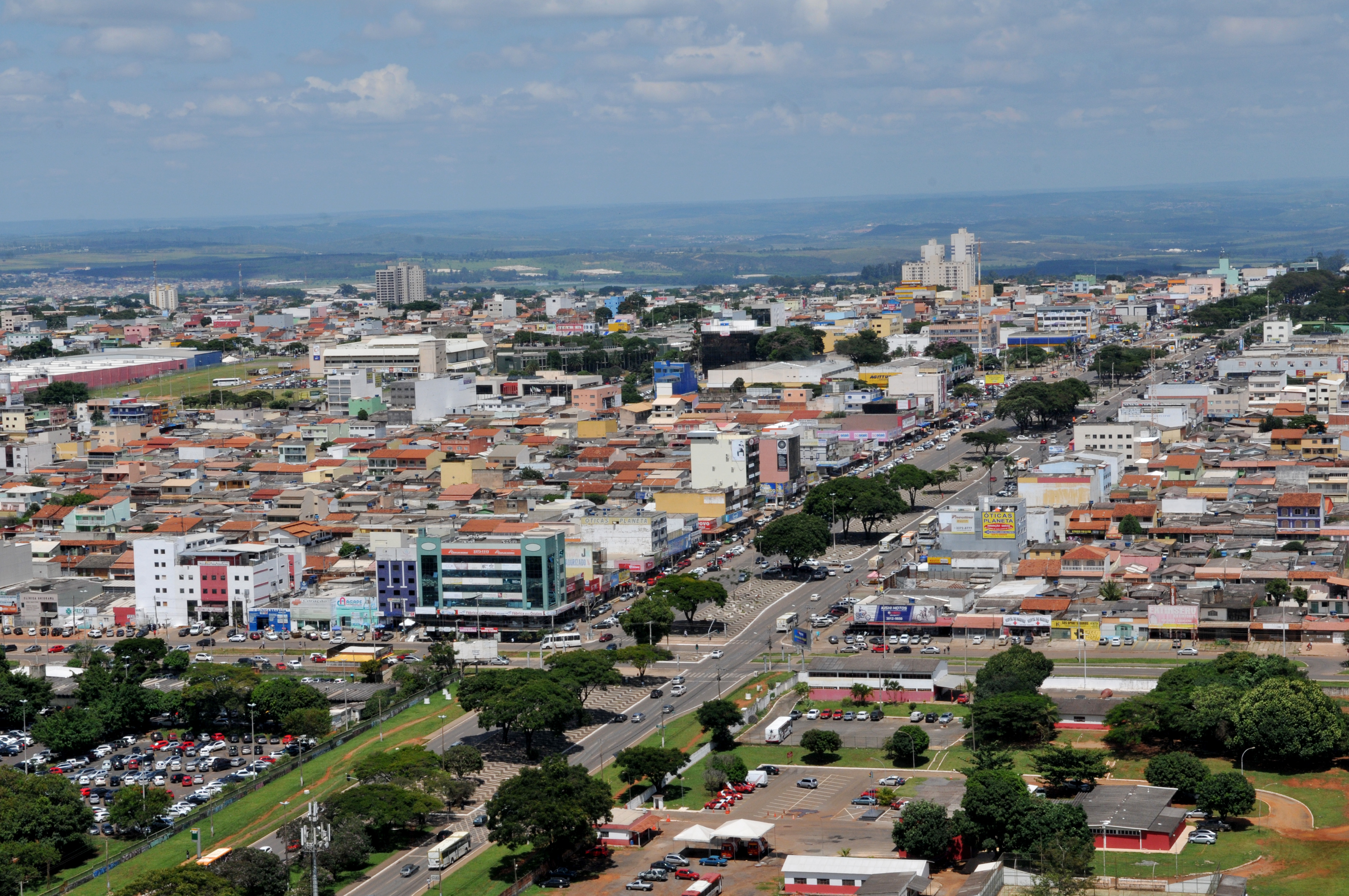 Ceilândia, Brasília, DF, Brasil 23/3/2017 Foto: Tony Winston/Agência Brasília.Na segunda-feira (27), a cidade de Ceilândia completa 46 anos de criação. Para comemorar o aniversário, vão ocorrer várias atrações durante todo o dia no sábado (25).